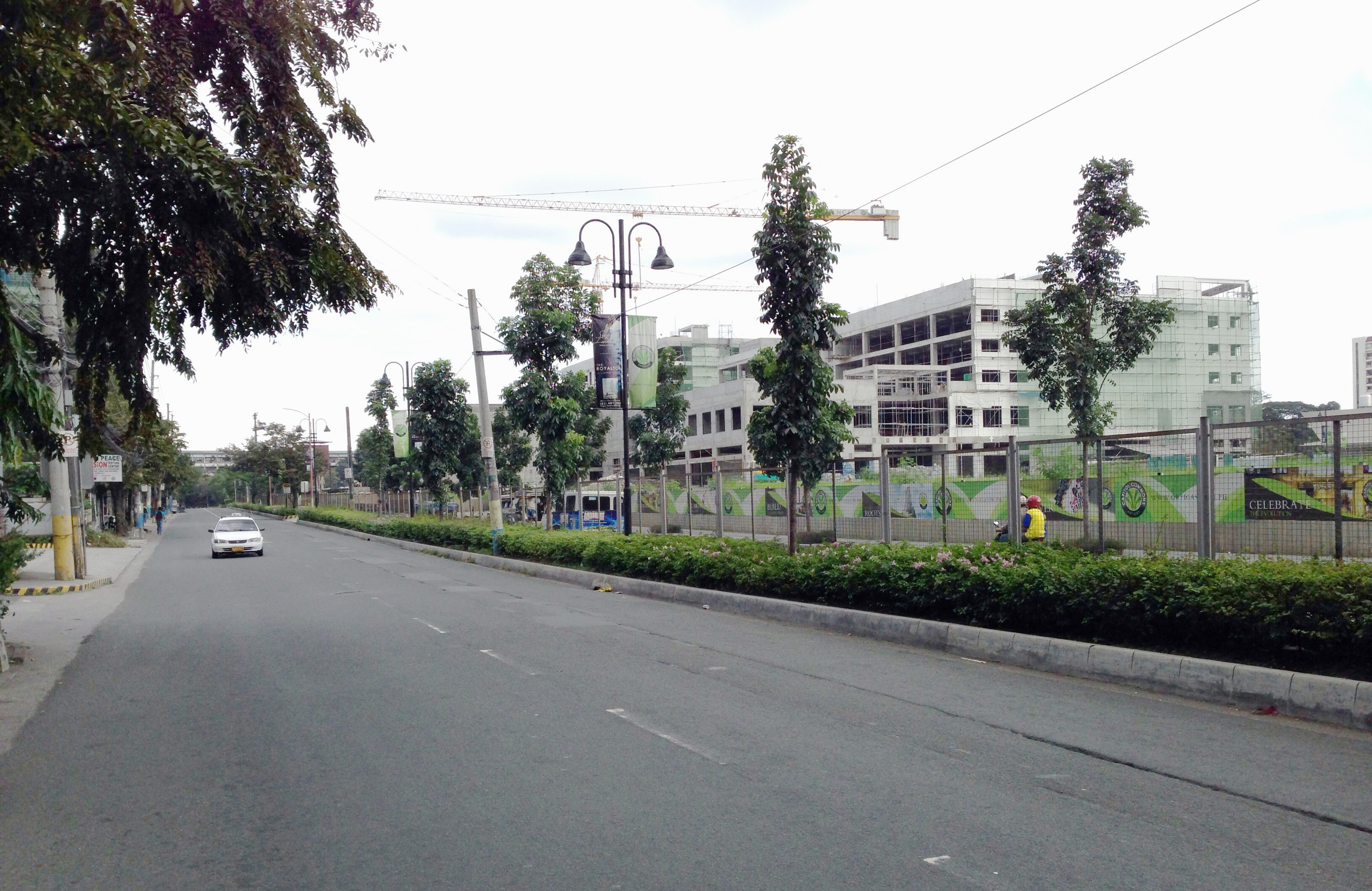 Capitol Commons (former Rizal Provincial Capitol grounds), Meralco Avenue, Ortigas Center, Pasig, Manila